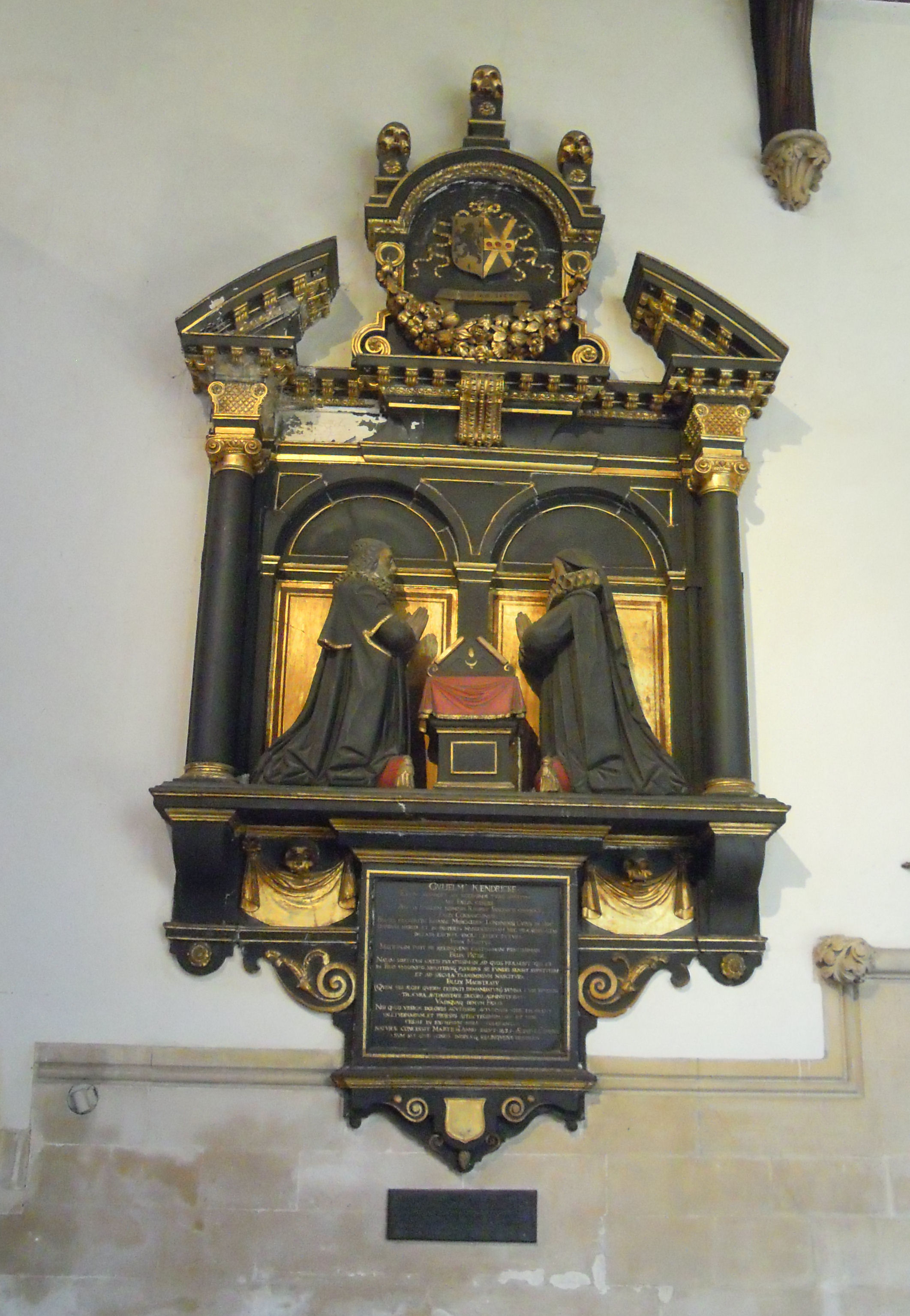 The imposing wall monument to William Kendricke (d.1635) in Reading Minster (per Pevsner[1]). Arms of Kendrick: Ermine, a lion rampant sable. The inscription claims the family was descended from King Cynric of Wessex! William was the brother of Reading's great patron, John Kendrick, but his corrupt administration of his brother's great charitable legacy, the Oracle, eventual led to its appropriation by Christ's Hospital. ( . Text from The History and Antiquities of Reading By Charles Coates[2]: Regarding another church in Reading: On the North wall of the chancel hangs the atchievement of fir William Kendrick, Ermine, a lion rampant Sable, on his shoulder a crescent for difference, with the arms of Ulster in a canton ; impaling Argent, three piles Sable, one issuing out of the chief, between two others reversed, for Howse, or Hulse, of Whitley. On the South wall of the chancel, fretty, Or and Sable, a cheveron Gules ; impaling Kendrick. The Kendrick Baronetcy, of Whitley in the County of Berkshire, was a title in the Baronetage of England. It was created on 29 March 1679 for William Kendrick, grand-nephew of the famous cloth merchant and philanthropist, John Kendrick. The title became extinct on the death of the second Baronet in 1699.